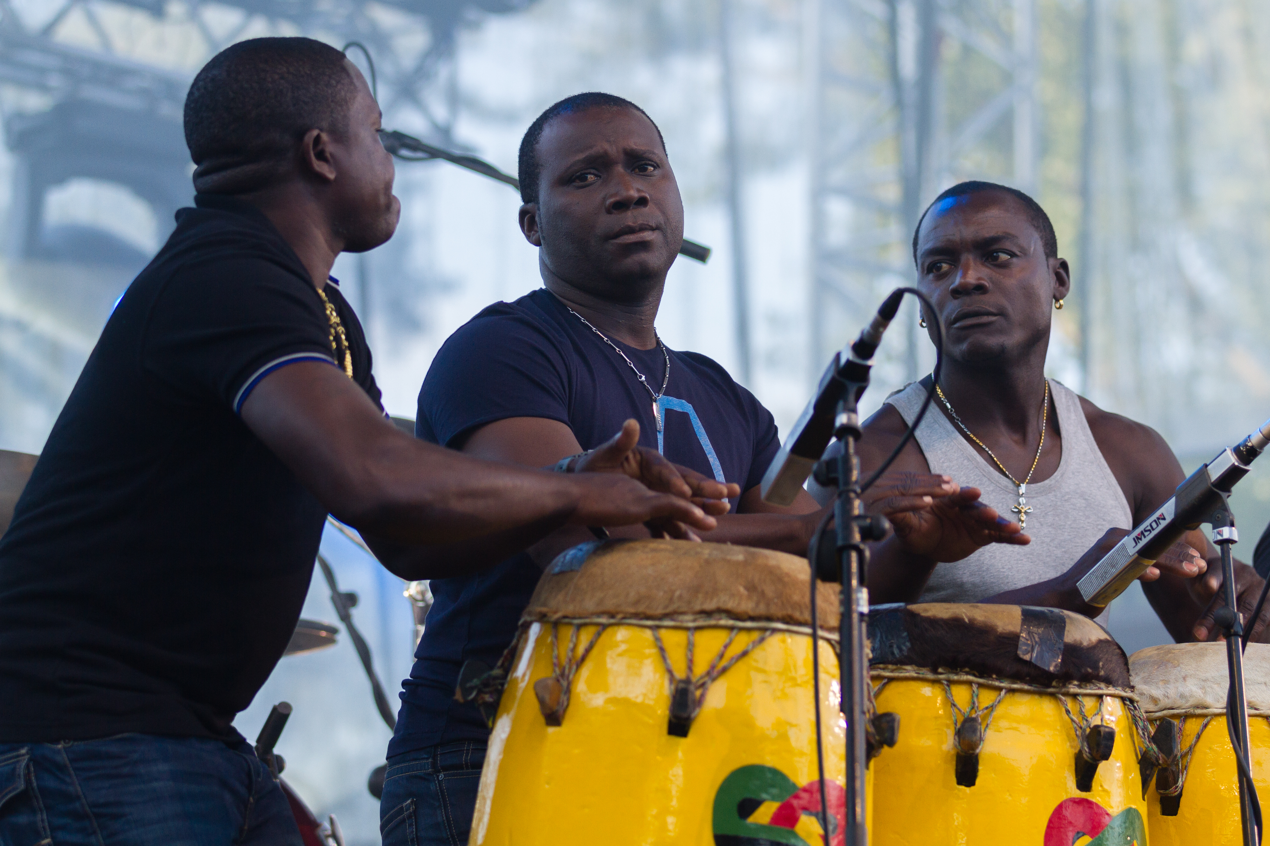 Gig of Fondering & Prince Koloni at Rio Loco 2014 in Toulouse